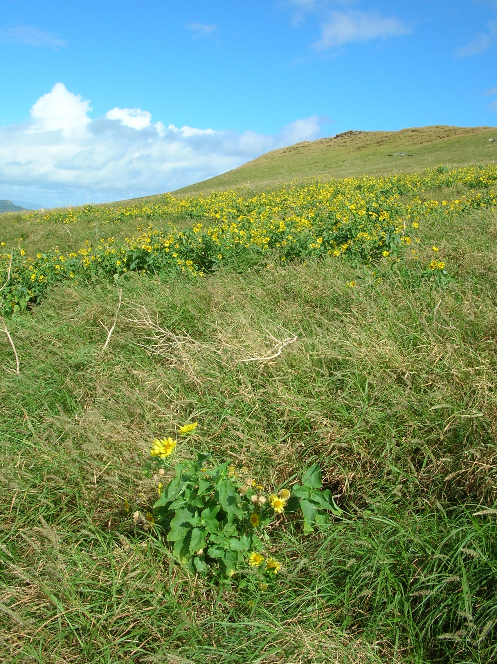 Verbesina encelioides (habit). Location: Oahu, Manana